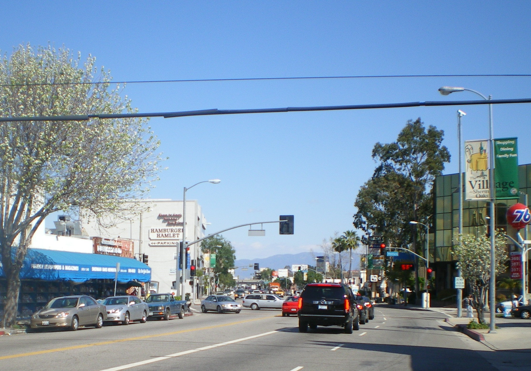 Village of Sherman Oaks — at Van Nuys Boulevard and Ventura Boulevard, southern San Fernando Valley, Los Angeles.